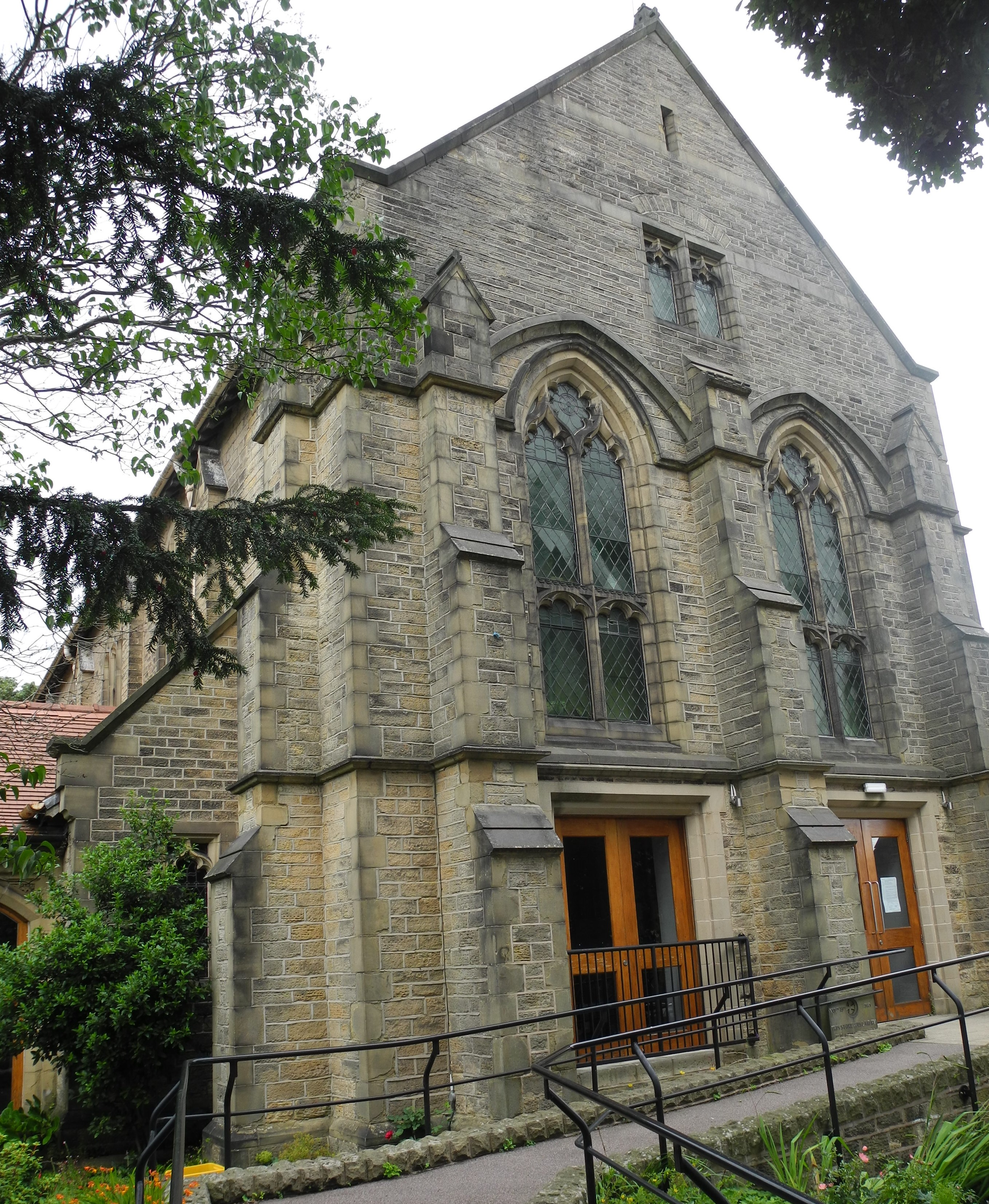 St Timothy's Church, Slinn Street, Crookes, Sheffield. Built in 1910 by the architects J.D. Webster & Son